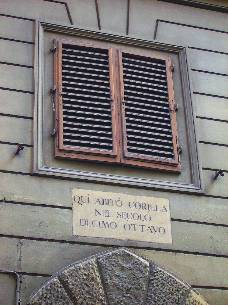 The florentine house of Maria Maddalena Morelli